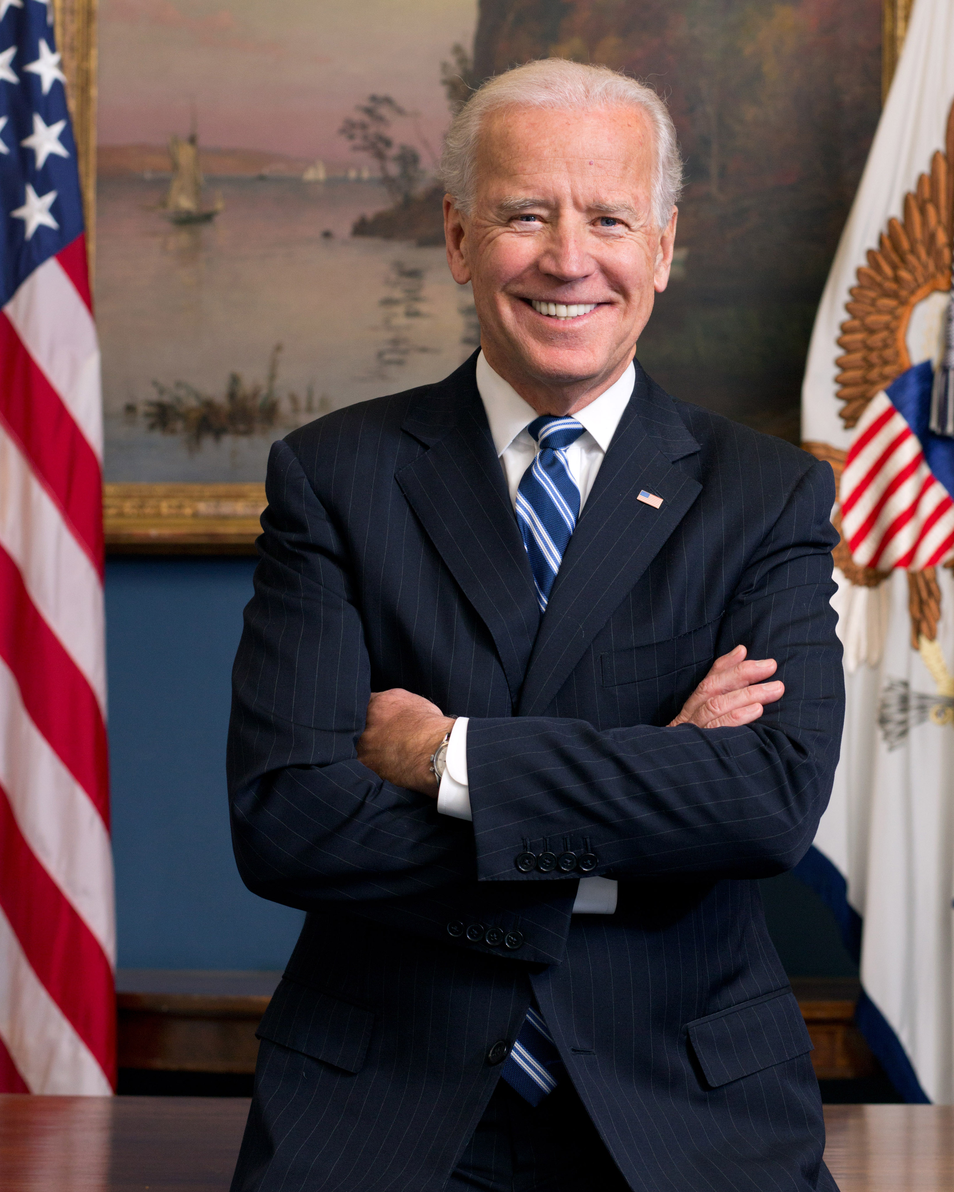 Official portrait of United States Vice President Joe Biden in his West Wing Office at the White House.